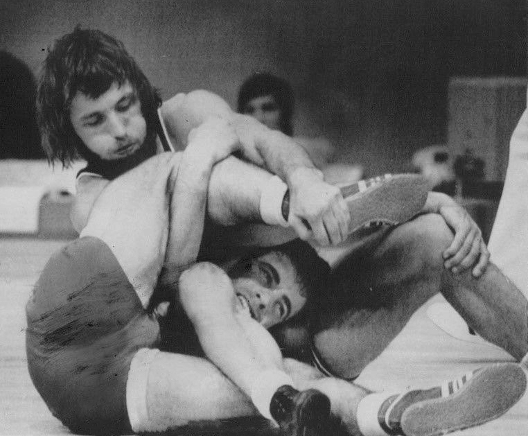 LG11 1972 Wire Photo RICH SANDERS EDUARDO MAGGIOLO Olympic Freestyle Wrestling